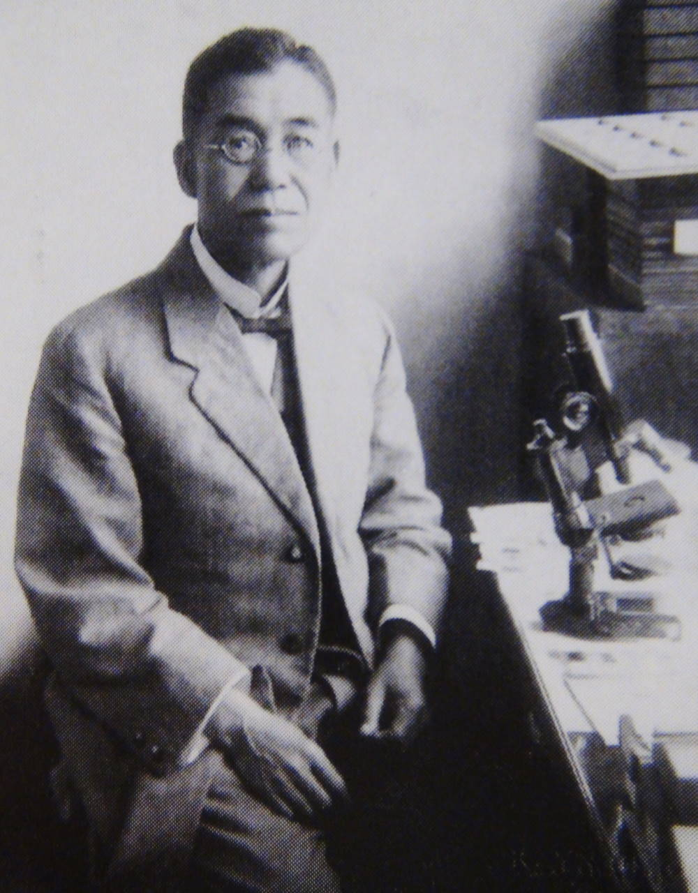 Ph.D.Keinosuke Miyairi